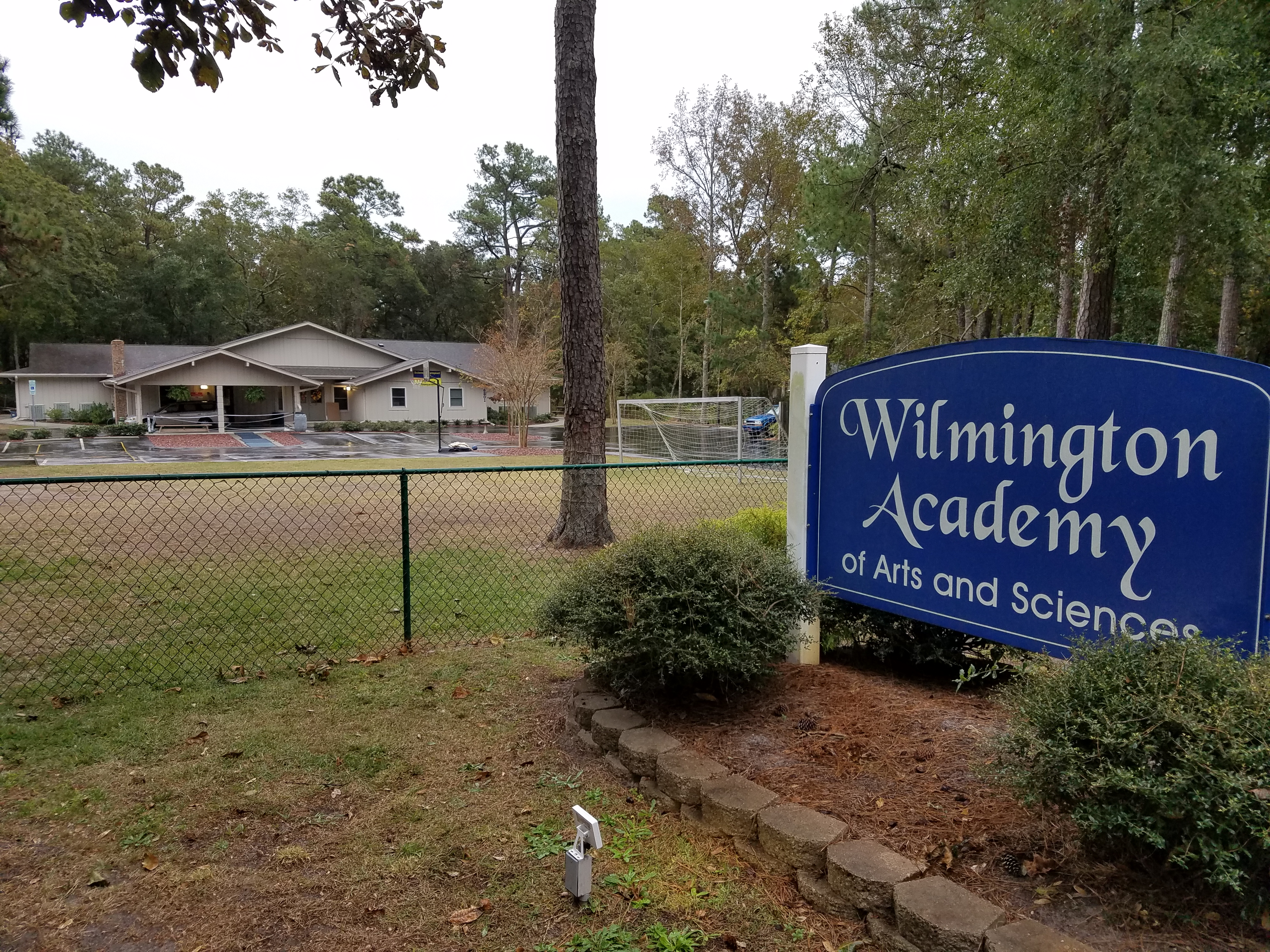 Wilmington Academy of Arts and Sciences (WAAS) is a private school in Wilmington, North Carolina that focuses on education for academically gifted students in grades 4-8.